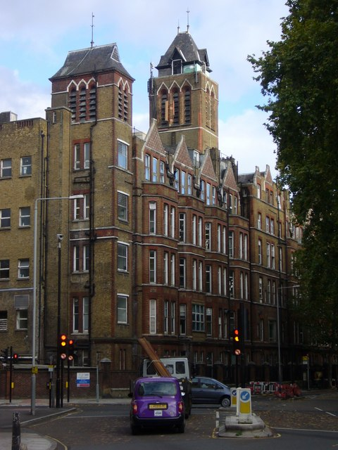 St Pancras Hospital, Camden Originally the St Pancras Workhouse, then hospital for Tropical Diseases, now the hospital provides outpatient mental health services, day hospital facilities and care for residential patients. An art gallery is in the Conference Centre building. A Recovery College is in the Bloomsbury Building